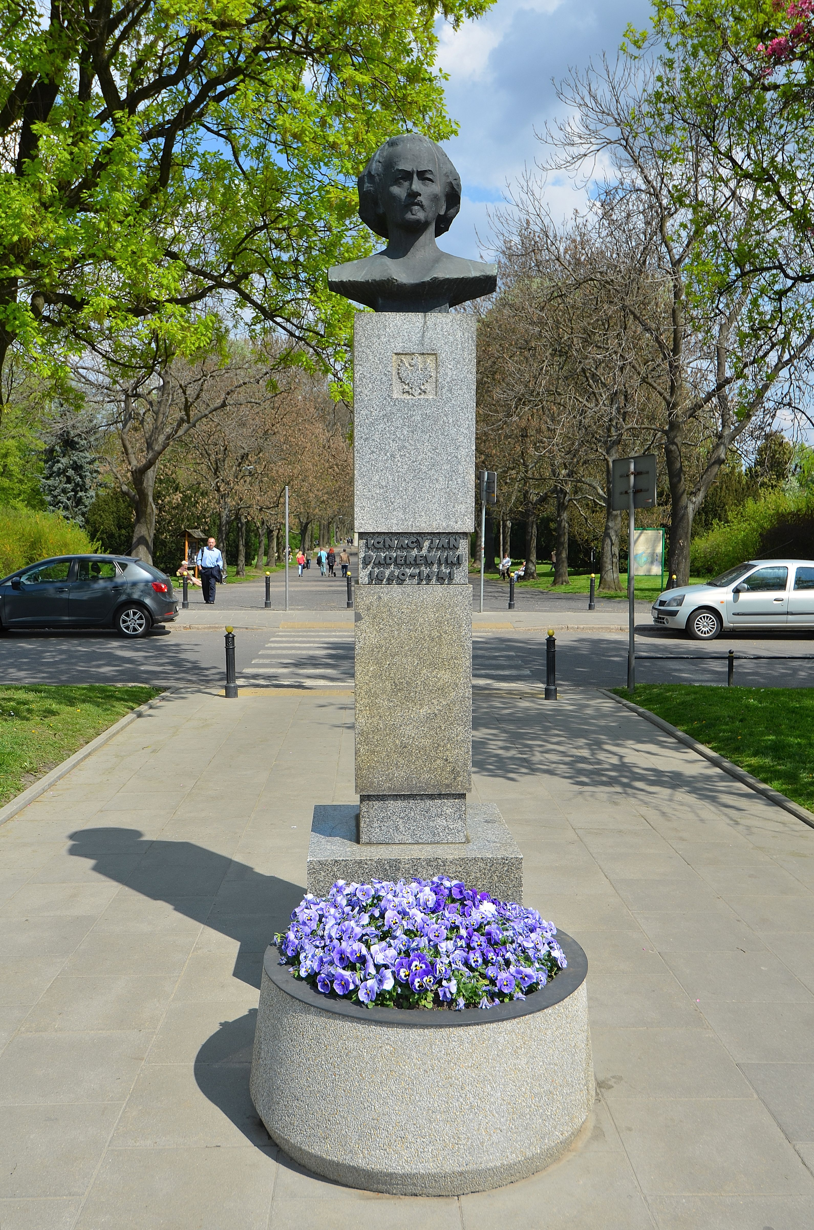 Ignacy Jan Paderewski Monument in Skaryszewski Park in Warsaw